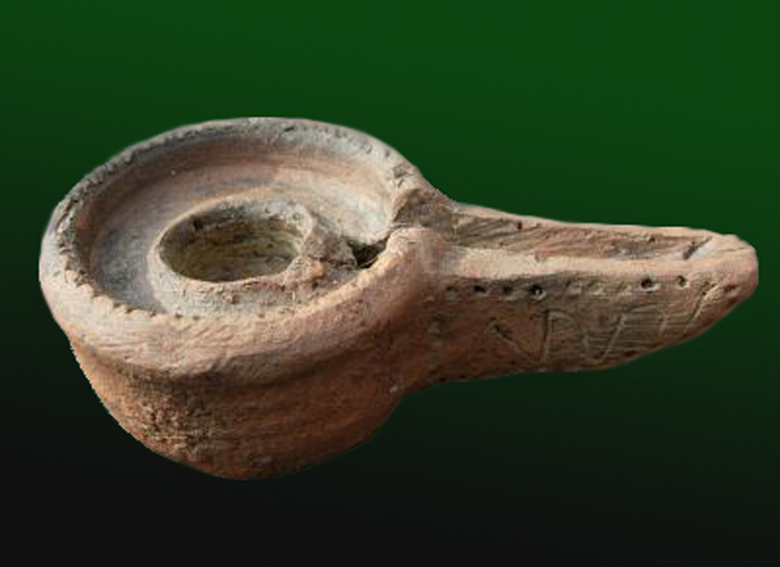 Antique Parthian terracotta oil lamp 3B.C.- 3A.D.